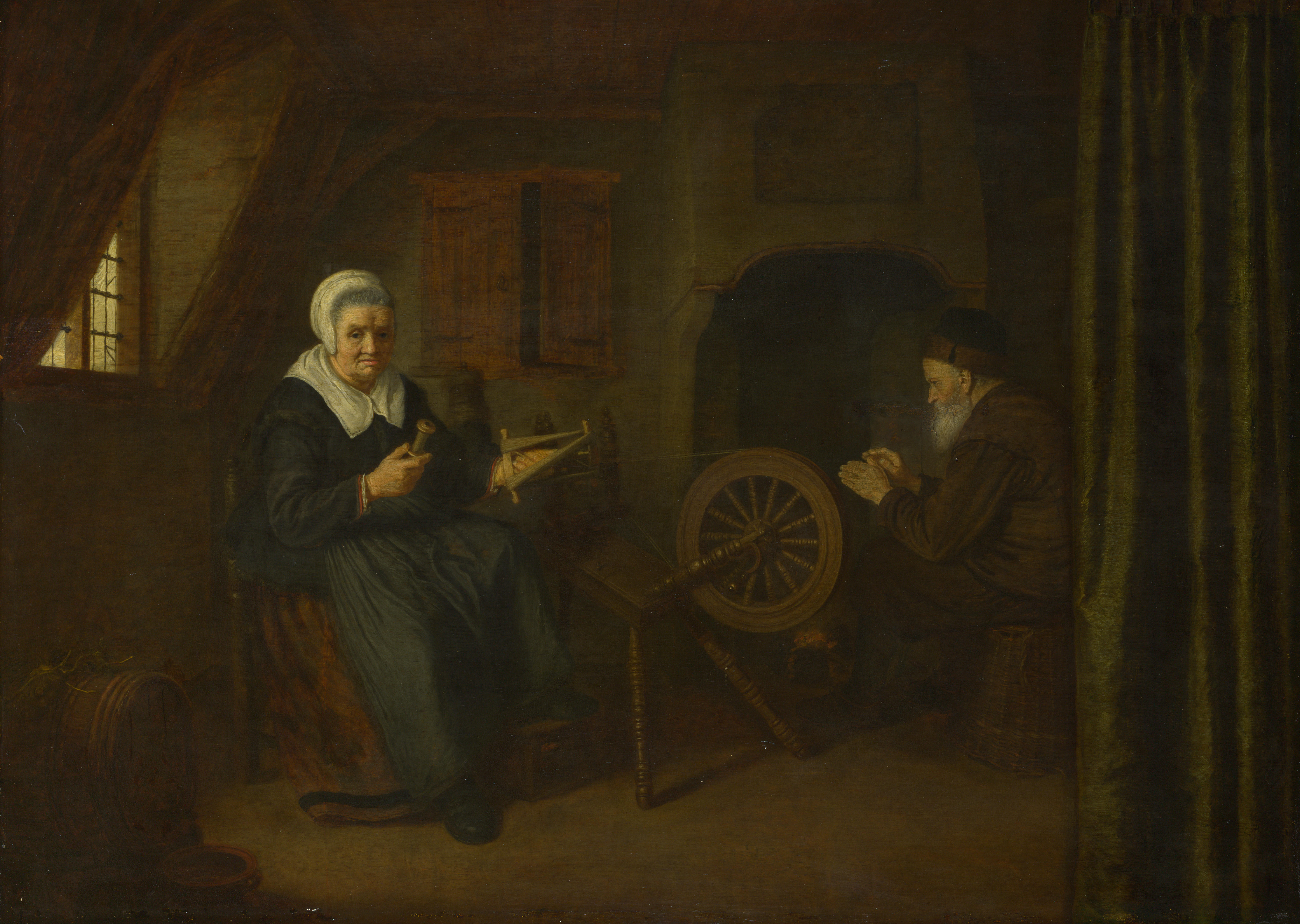 NG1221. Bought, 1886. Signed and dated on the wall-cupboard: A . DE . PAPE 165(8 or 9?) Tobit and Anna were the parents of Tobias who saved his father's sight with the help of the Archangel Raphael. Tobit had been reduced to poverty by God as a test: Anna supported them with her spinning wheel. Book of Tobit (2: 11 and 4: 21). If the identification of the subject as Tobit and Anna is correct, the spinning-wheel is presumably a reference to Anna working for money and the bare cupboard an allusion to their poverty. Because of the interior setting the painting was for a long time been interpreted as being a genre scene with an old couple. However, the subject was identified by comparison with a similar painting by Rembrandt ('Anna and the Blind Tobit'), also in the National Gallery's Collection. In 17th-century Holland, paintings were sometimes protected by curtains, and illusionistic representations of them, as in the curtain set in front of the scene on the right, are not uncommon. Oil on oak 40.7 × 56 cm.